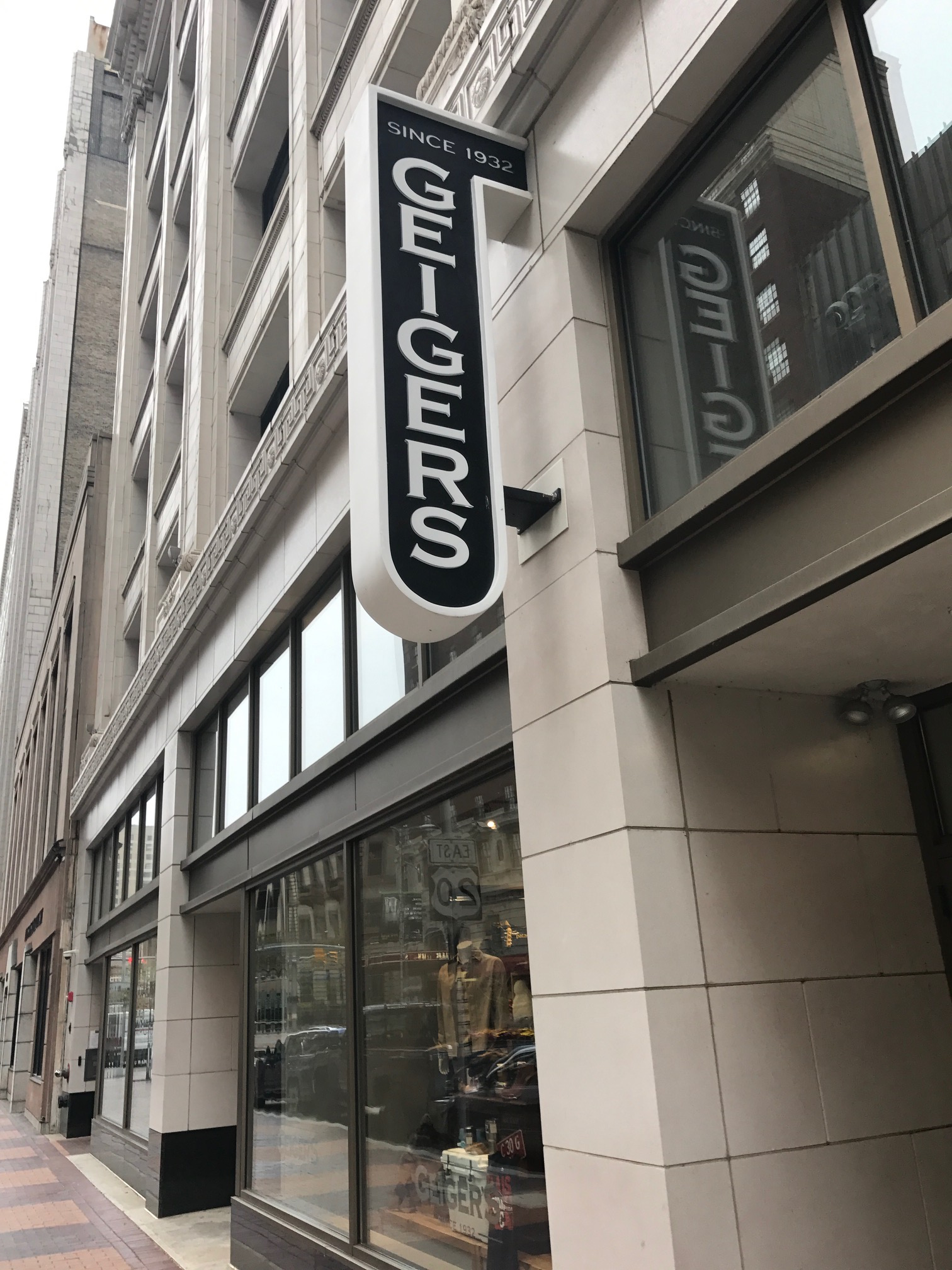 Photo of Geiger's Downtown store, looking east on Euclid Ave.